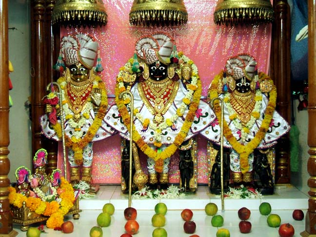 Image of NarNarayan Dev at Swaminarayan temple, Bhuj.